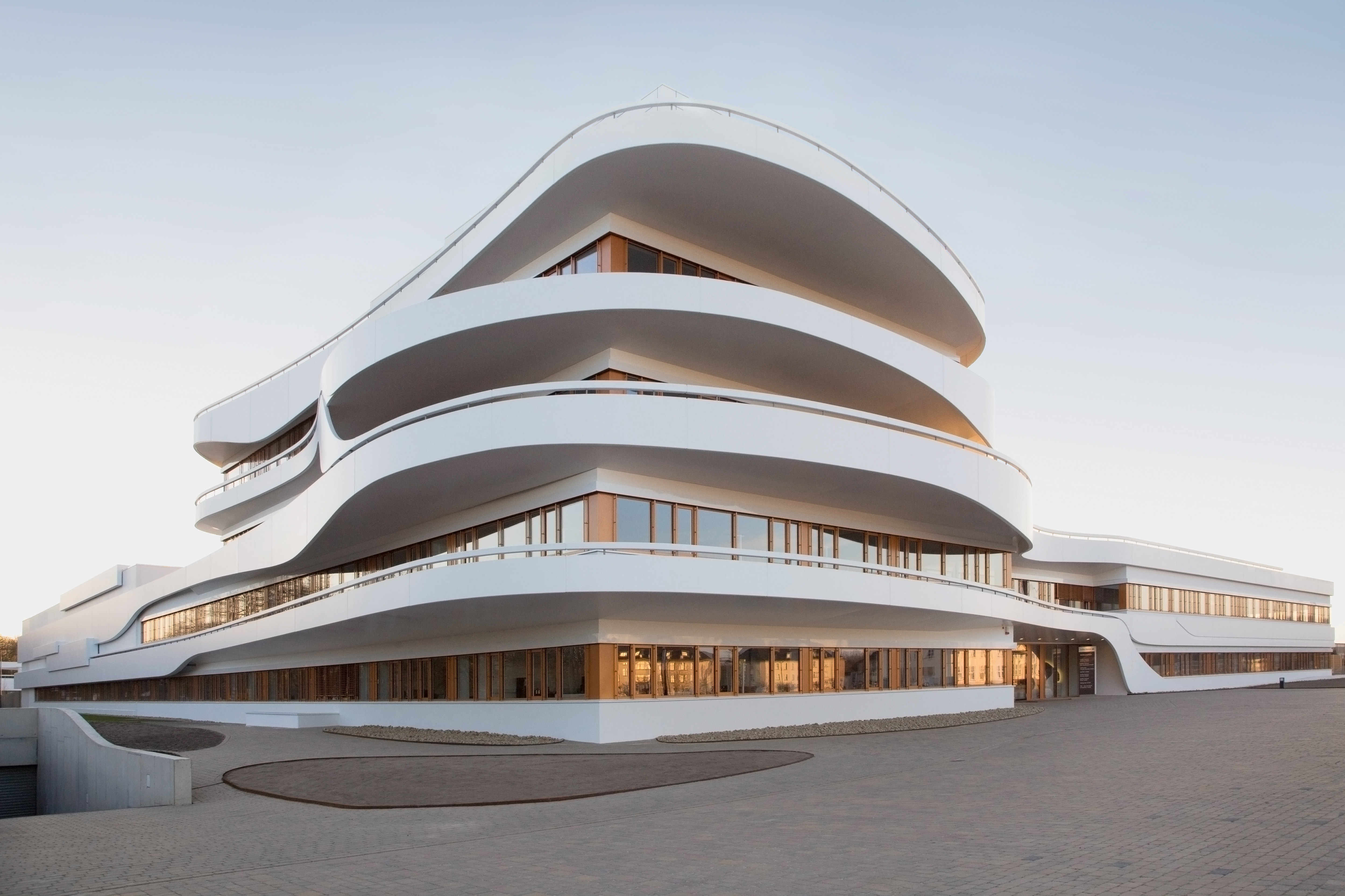 The fluid outlines conceal the orthogonal grid of the concrete skeleton construction buildings and lend the architecture an impression of dynamics.